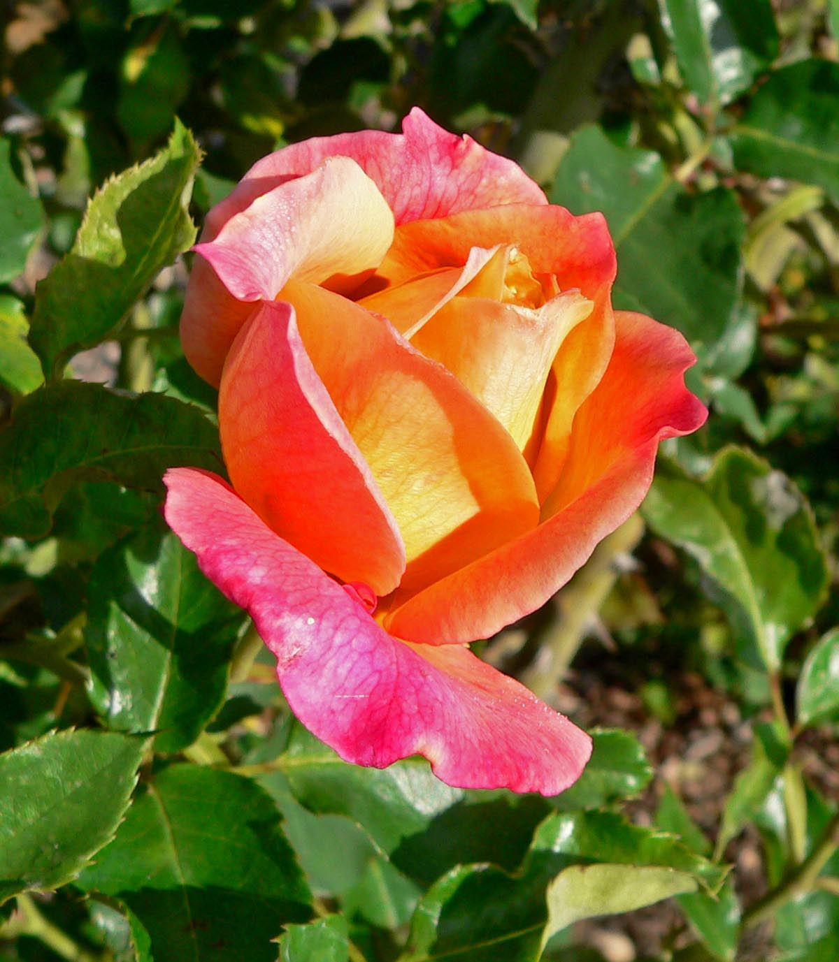 Photo of Rosa 'Girona' at the San Jose Heritage Rose Garden